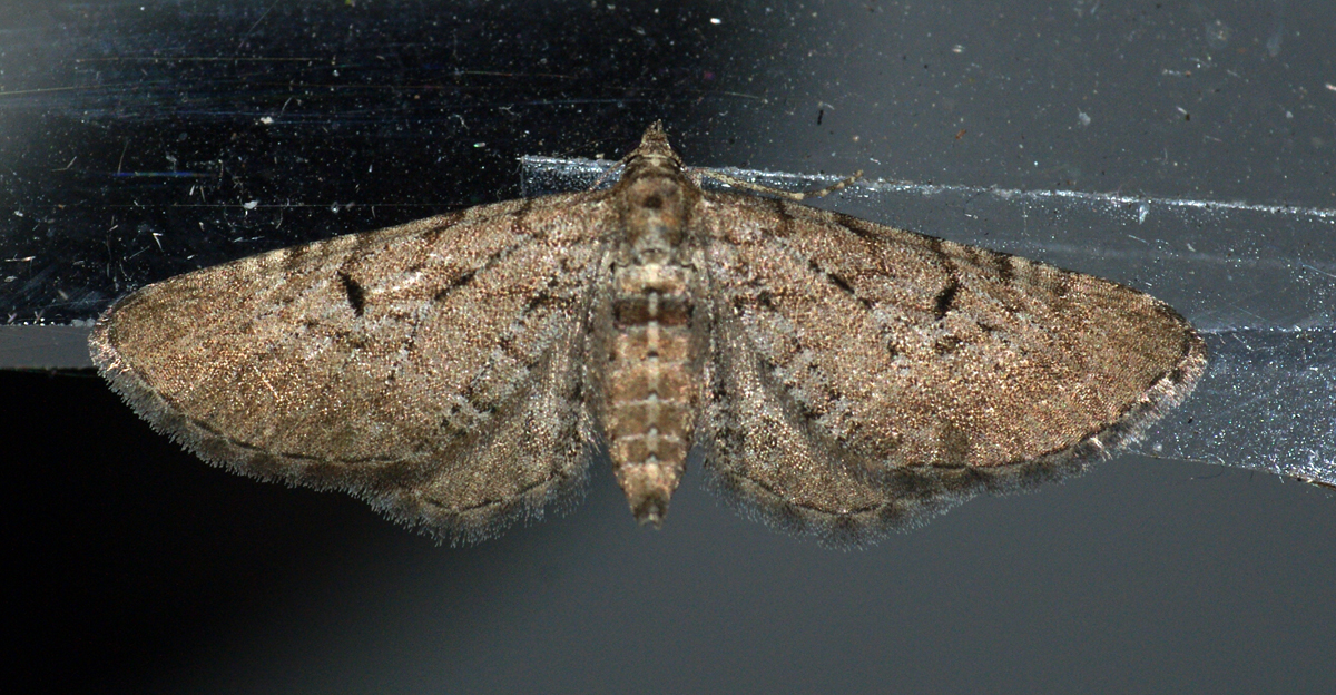 [1827] Freyer's Pug (Eupithecia intricata)